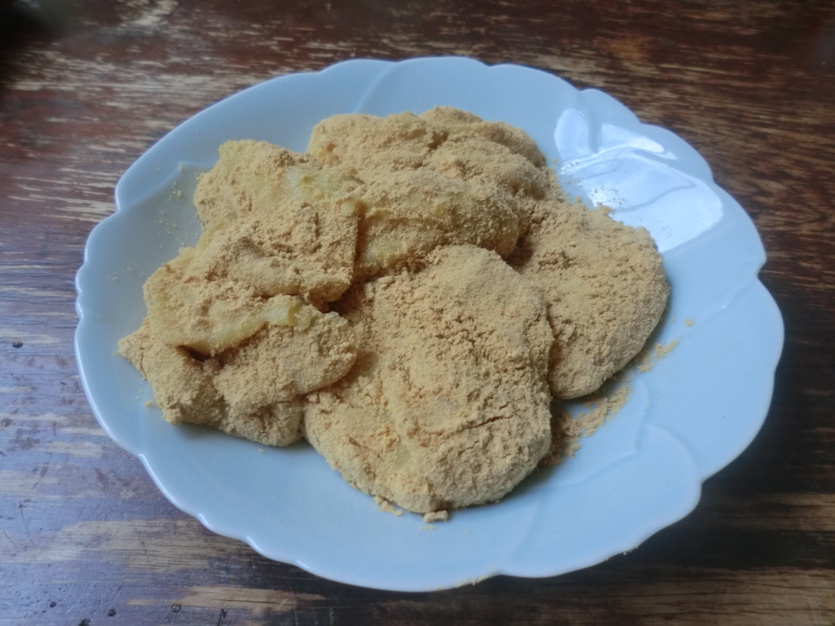 "Nerikuri"(local sweet made from sweet potato) famous in Kagoshima and Miyazaki prefecture,Japan.